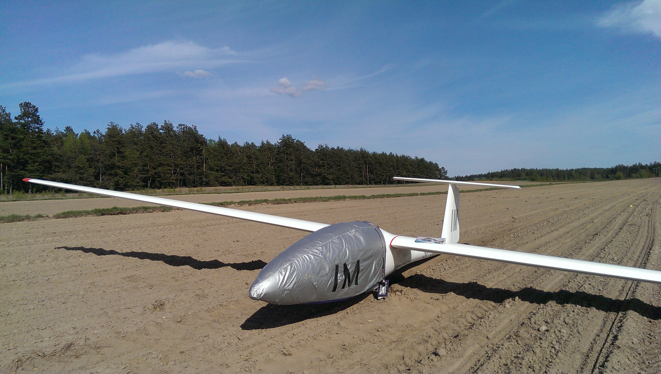 Jantar Standard 3 glider after outlanding.